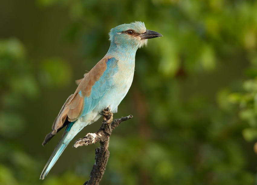 Coracias garrulus, Timbavati, South Africa